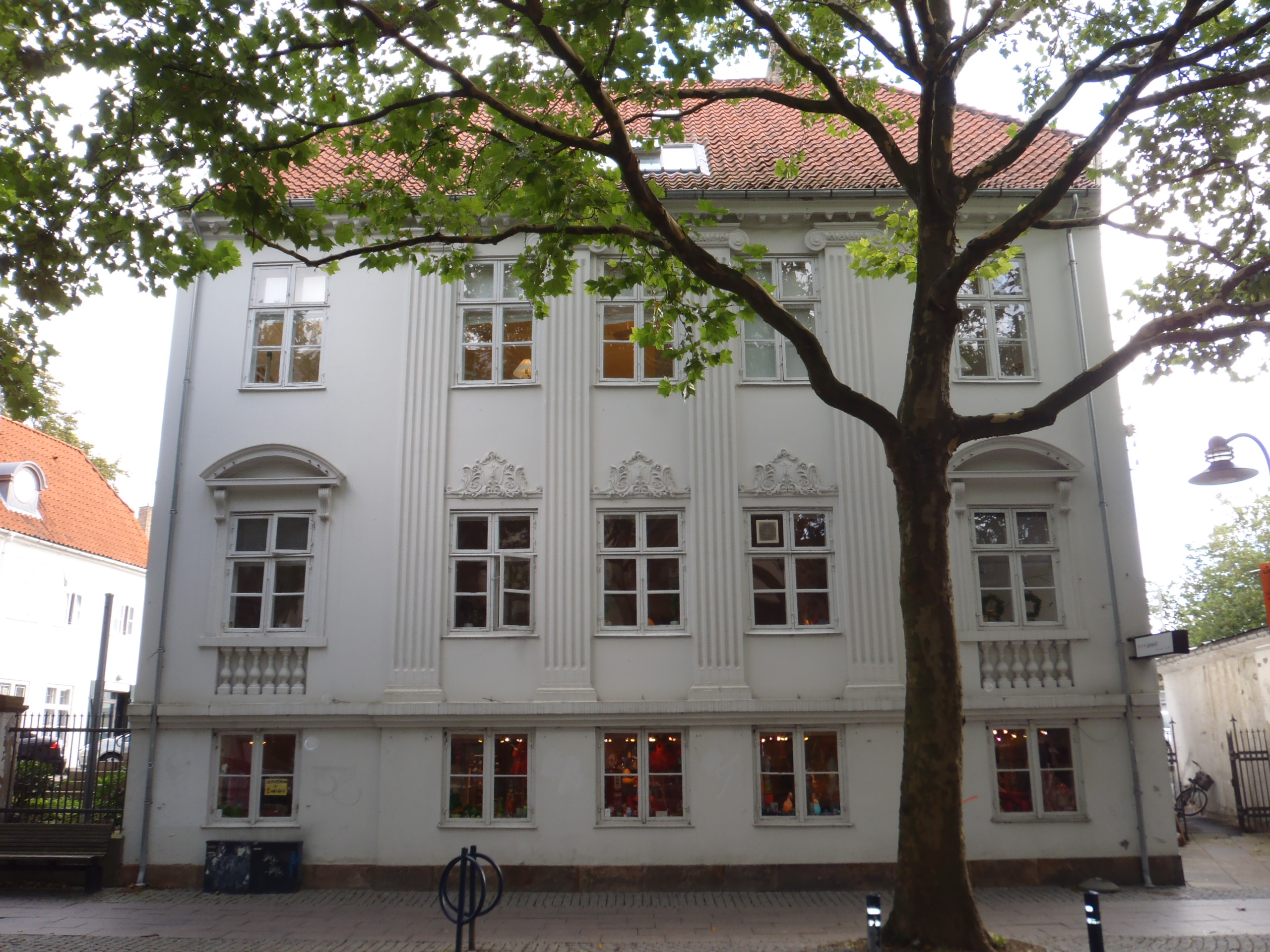 The main building of "The White Mansion", front facing Lyngby Hovedgade, Lyngby, Denmark